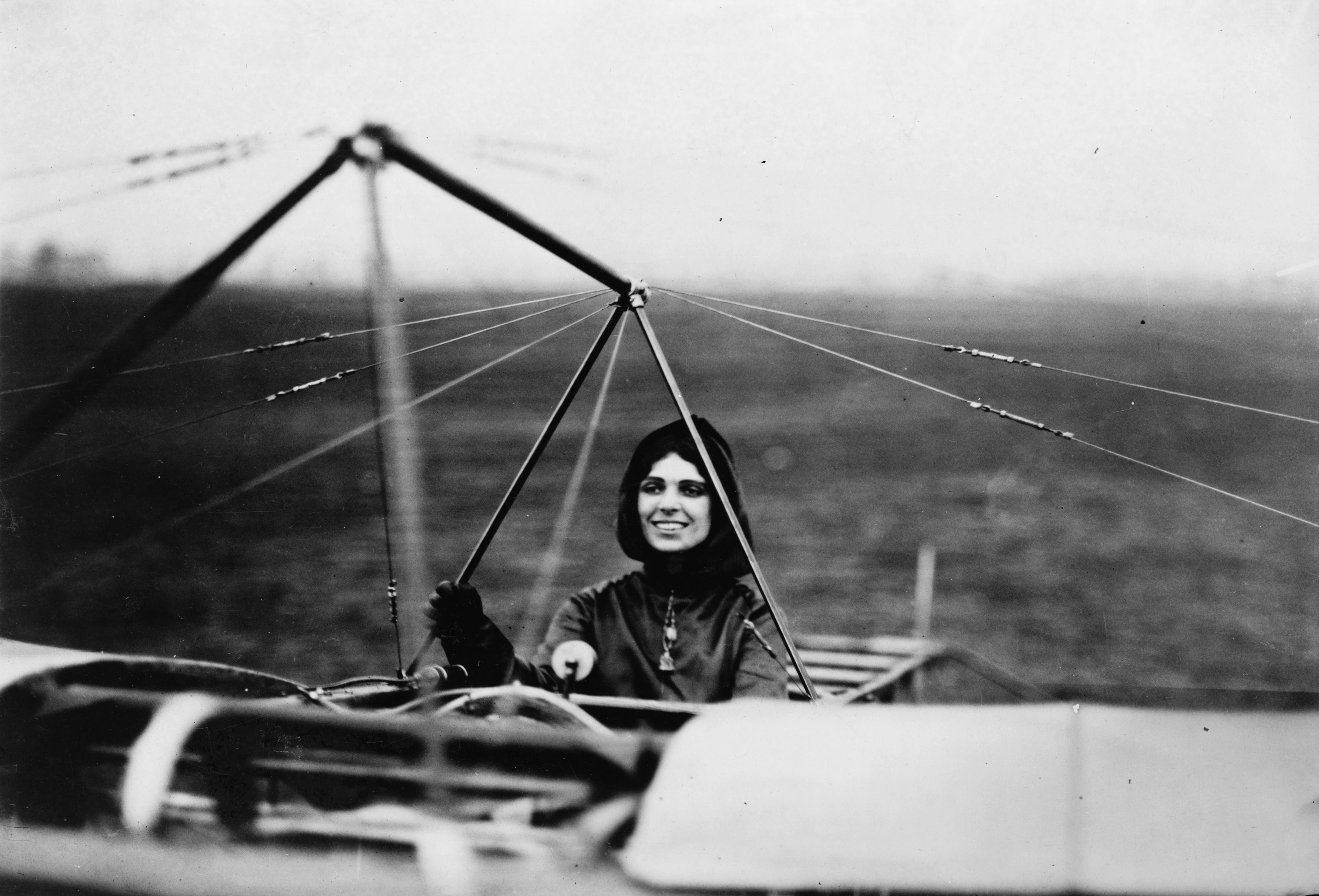 Harriet Quimby (1875-1912) in her Blériot monoplane.